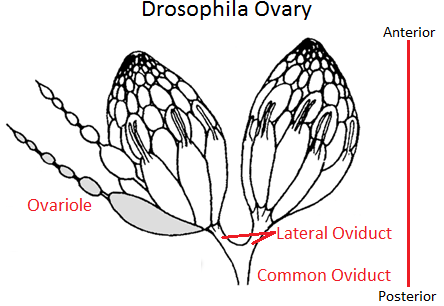 A cartoon of the Drosophila ovary, with labels